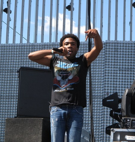 This is a picture of actor/writer/rapper Donald Glover a.k.a. Childish Gambino performing at Coachella in 2012